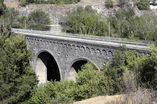 Hrazdan Gorge Aqueduct, Yerevan, Armenia.